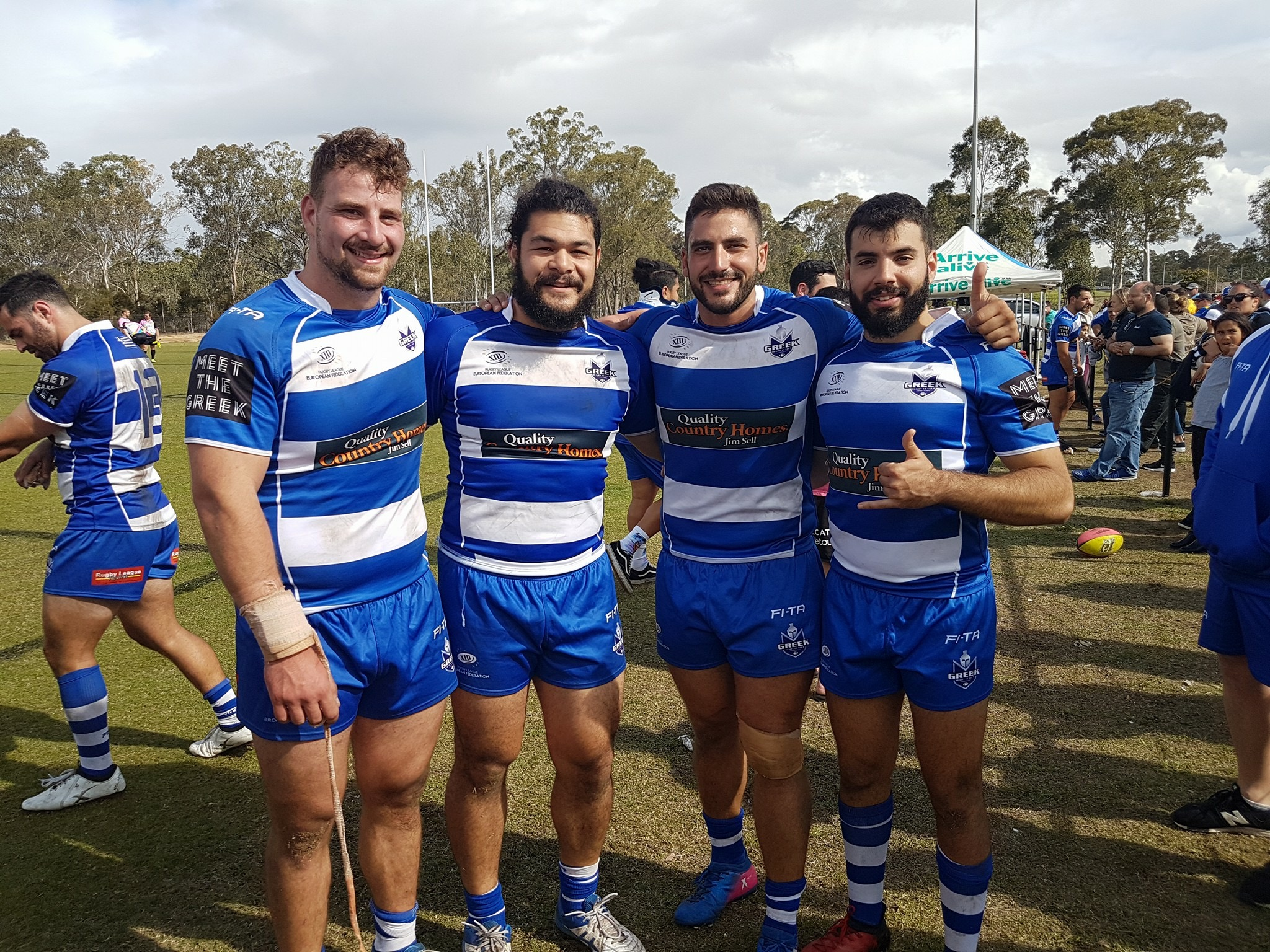 Left to Right: Stefanos Bastas, Robert Tuliatu, Ioannis Rousoglou and Dimosthenes Kartsonakis after the 2018 Emerging Nations Championship 3rd Place play off at St Mary's, Sydney.